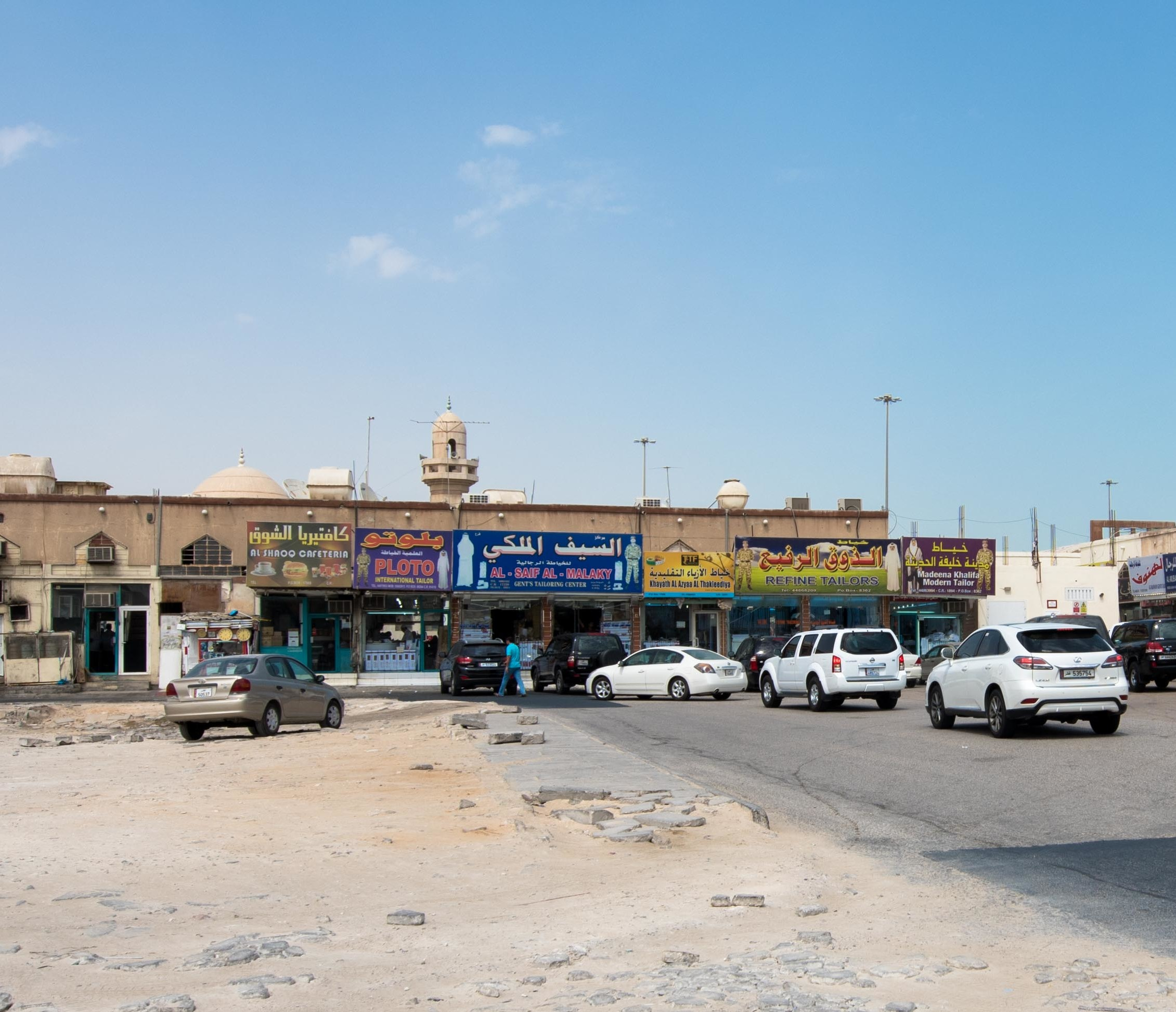 Tailor shops in the Al Luqta district of Al Rayyan, Qatar.